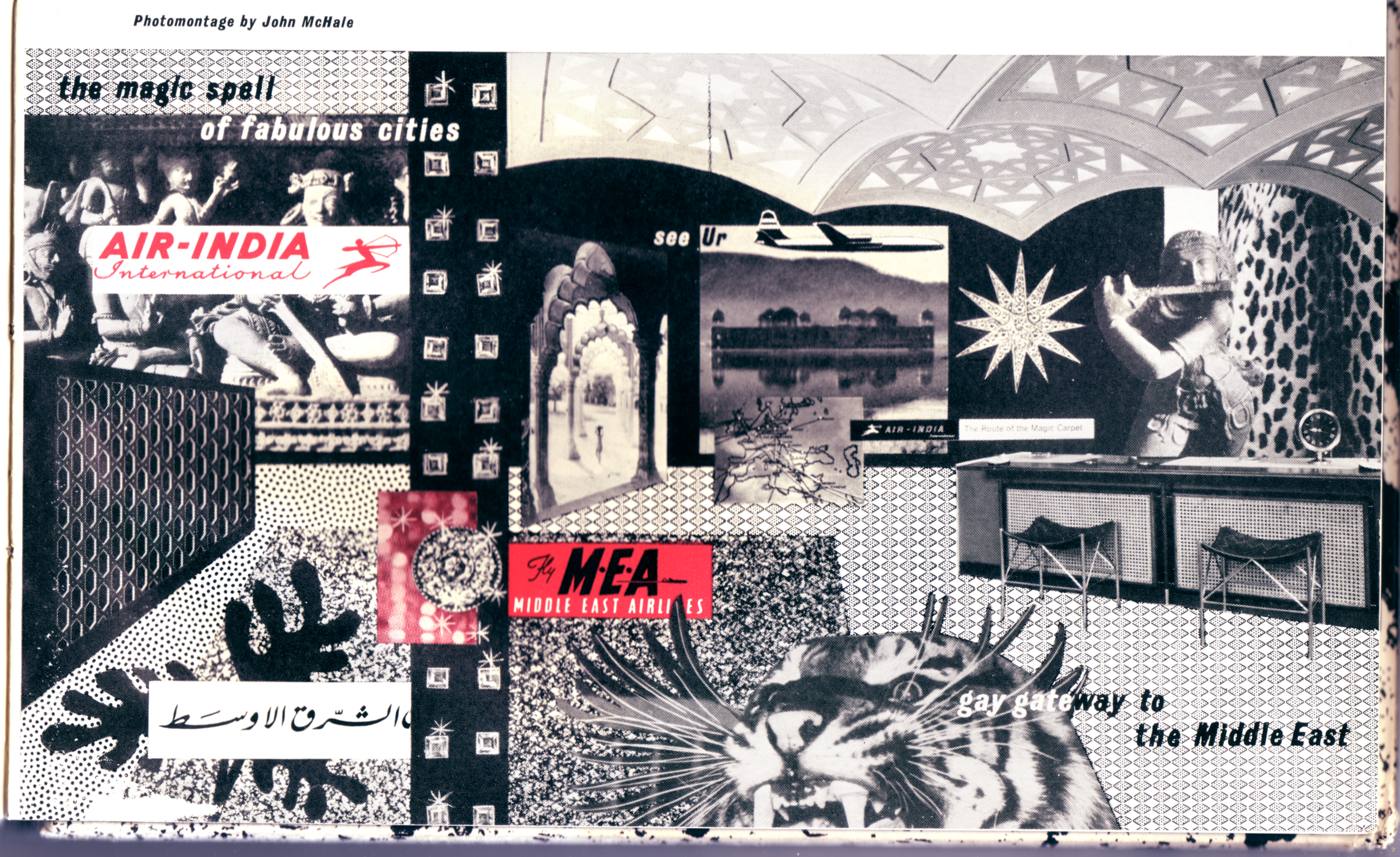 Photomontage